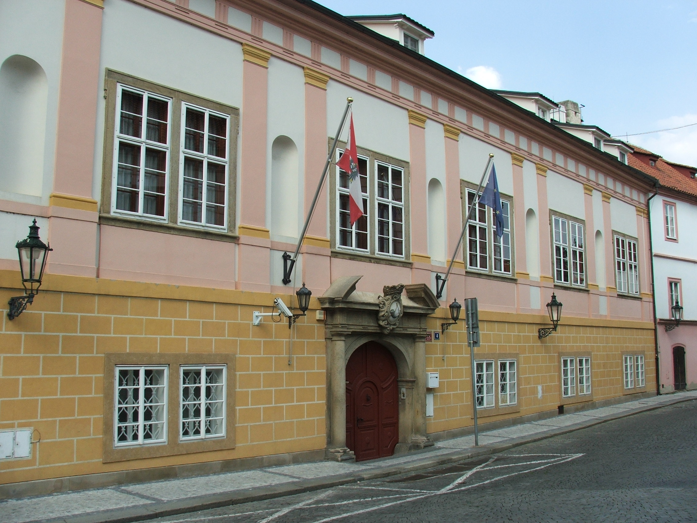 Hložek from Žampach Palace - Embassy of Austria (residence) in Prague - Hradčany, Czechia